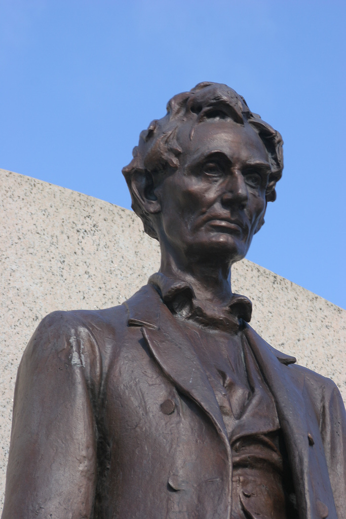 Abraham Lincoln's statue in front of state capitol building at Springfield, Illinois.